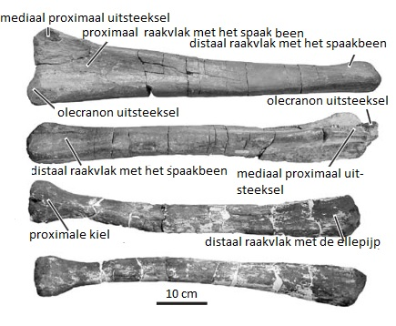 Right ulna and radius of Olorotitan arharensis Godefroit, Bolotsky & Alifanov, 2003 (holotype AEHM 2-845). Upper Cretaceous of Kundur, Russia